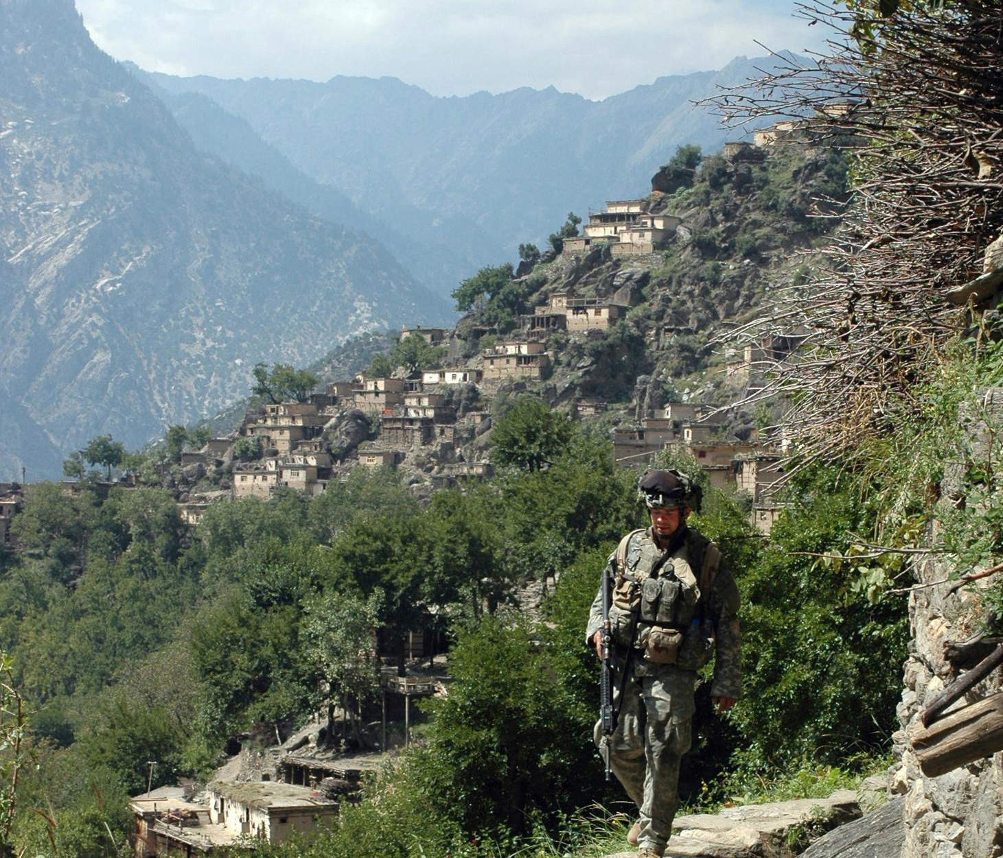 Cpl. Michael Good, a Soldier from B Company, 1st Battalion, 32nd Infantry Regiment, 10th Mountain Division, moves along a path overlooking the mountainside village of Aranas while on patrol in the Nuristan province. ARANAS, Afghanistan. Photo by Spc. Eric Jungels. This photo appeared on